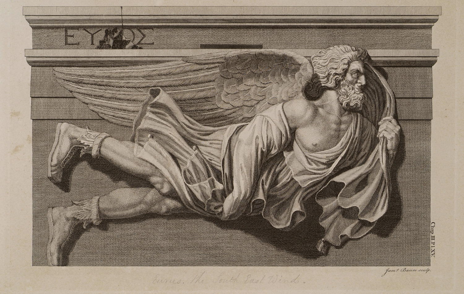 James Stuart & Nicholas Revett. The Antiquities of Athens measured and delineated by James Stuart F.R.S. and F.S.A. and Nicholas Revett Painters and Αrchitects, vol. III (ed. Willey Reveley), London, John Nichols, 1794